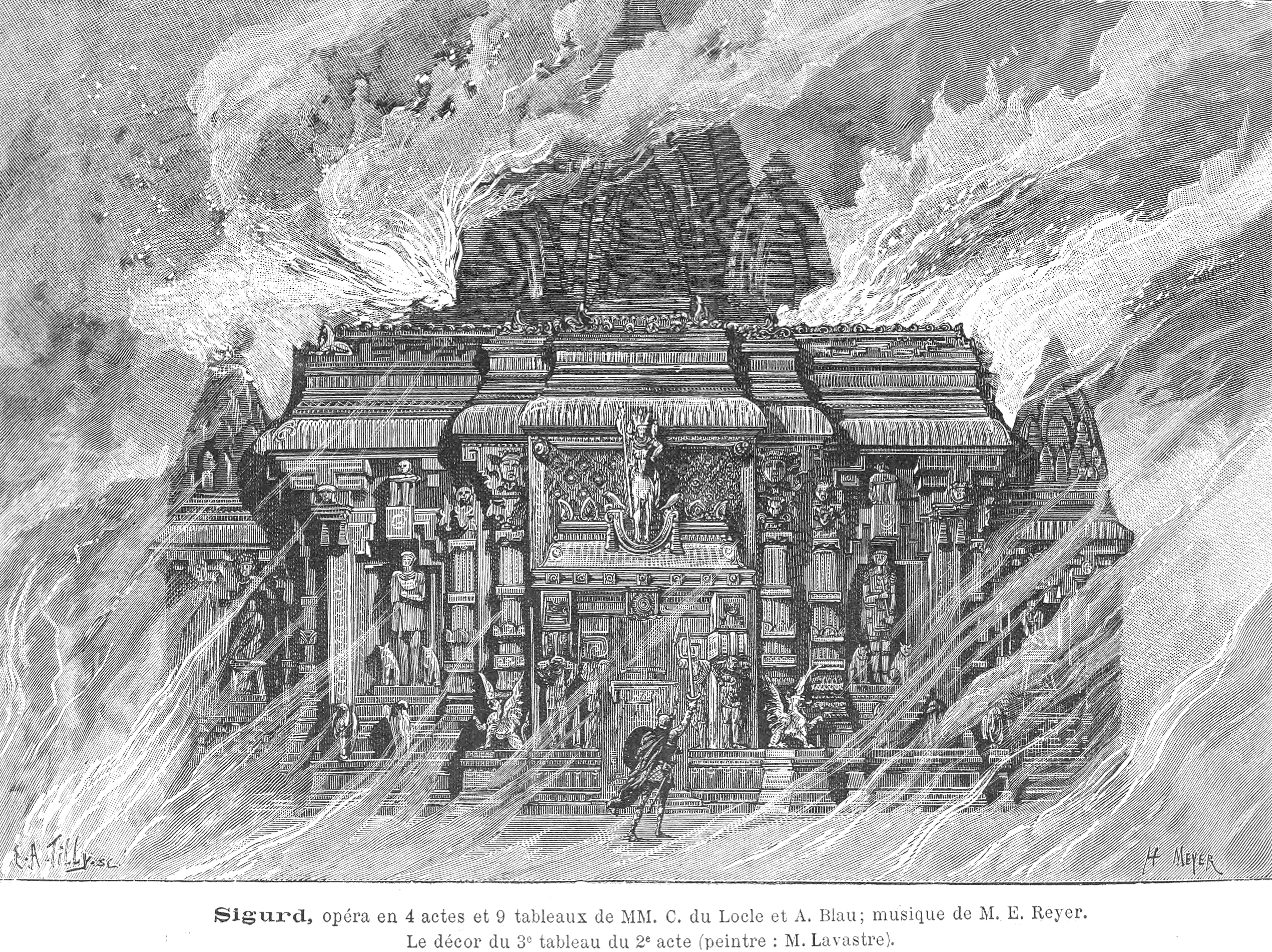 Ernest Reyer - Sigurd - 2.acte 3.tableau - M.Lavastre